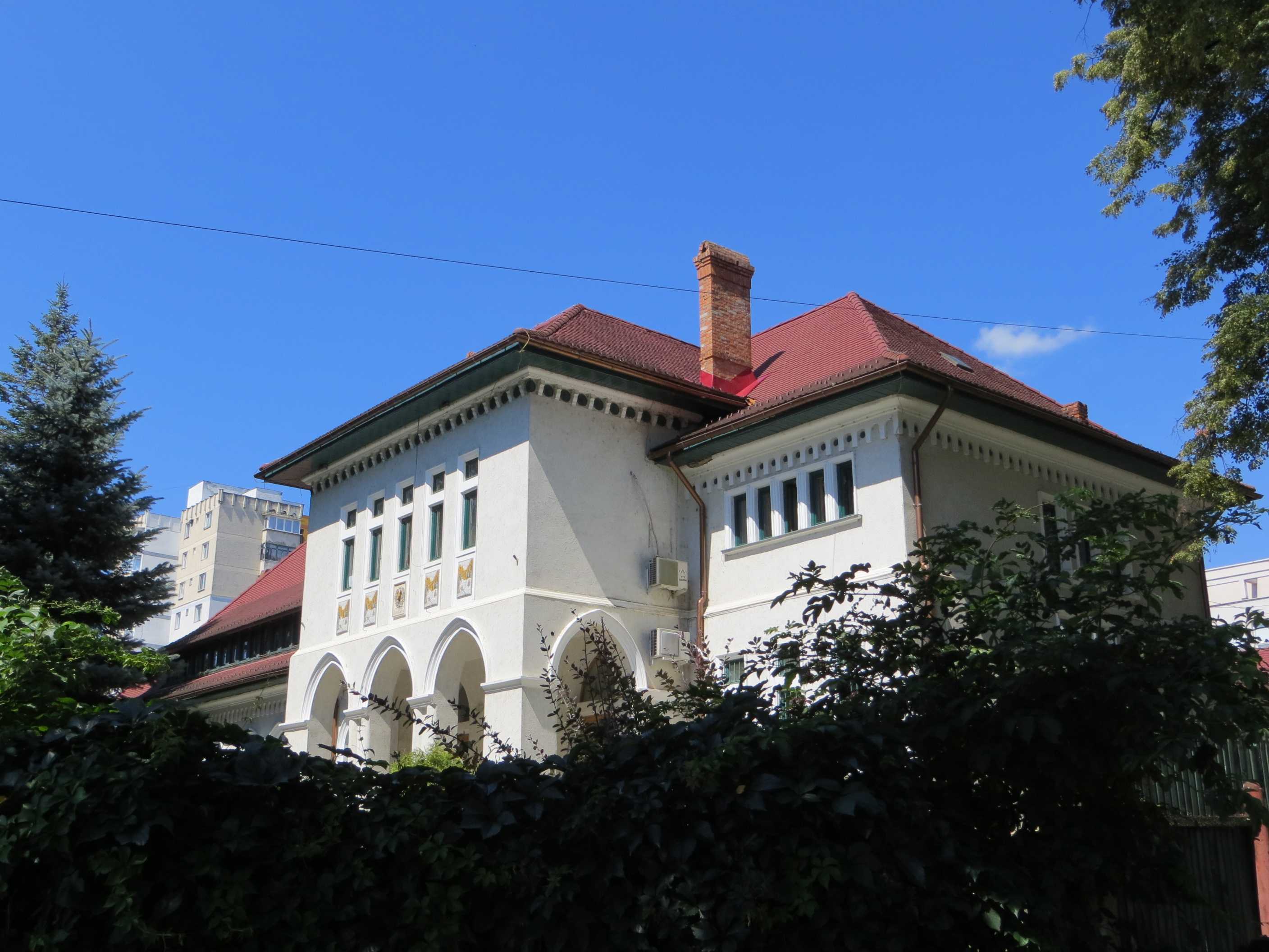 The Forestry Department in Suceava.